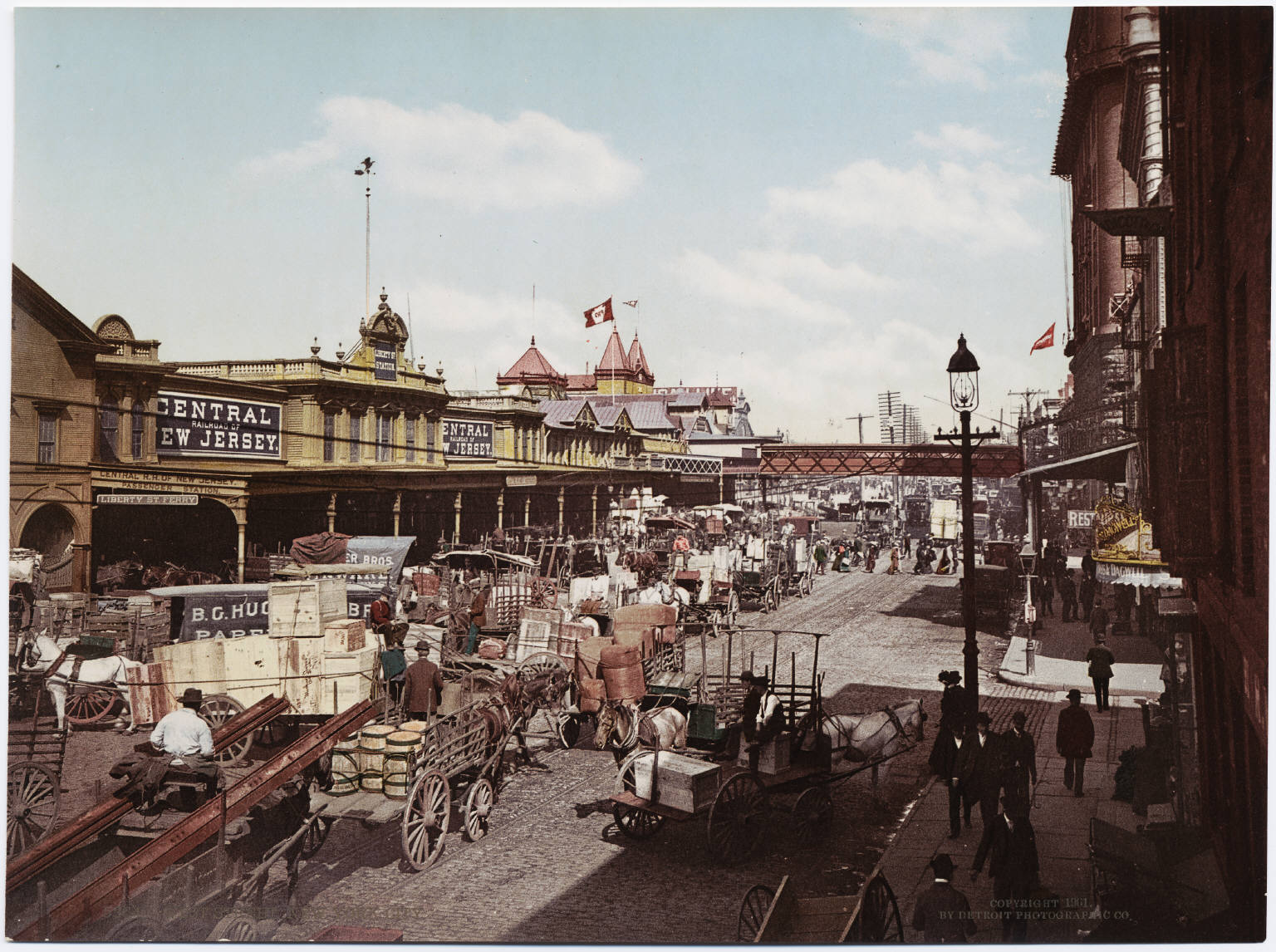 A photochrom postcard published by the Detroit Photographic Company.